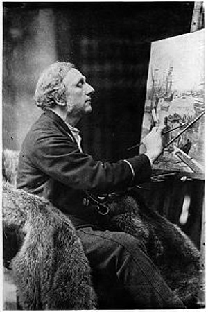 black-and-white photography of Francis Seymour Haden